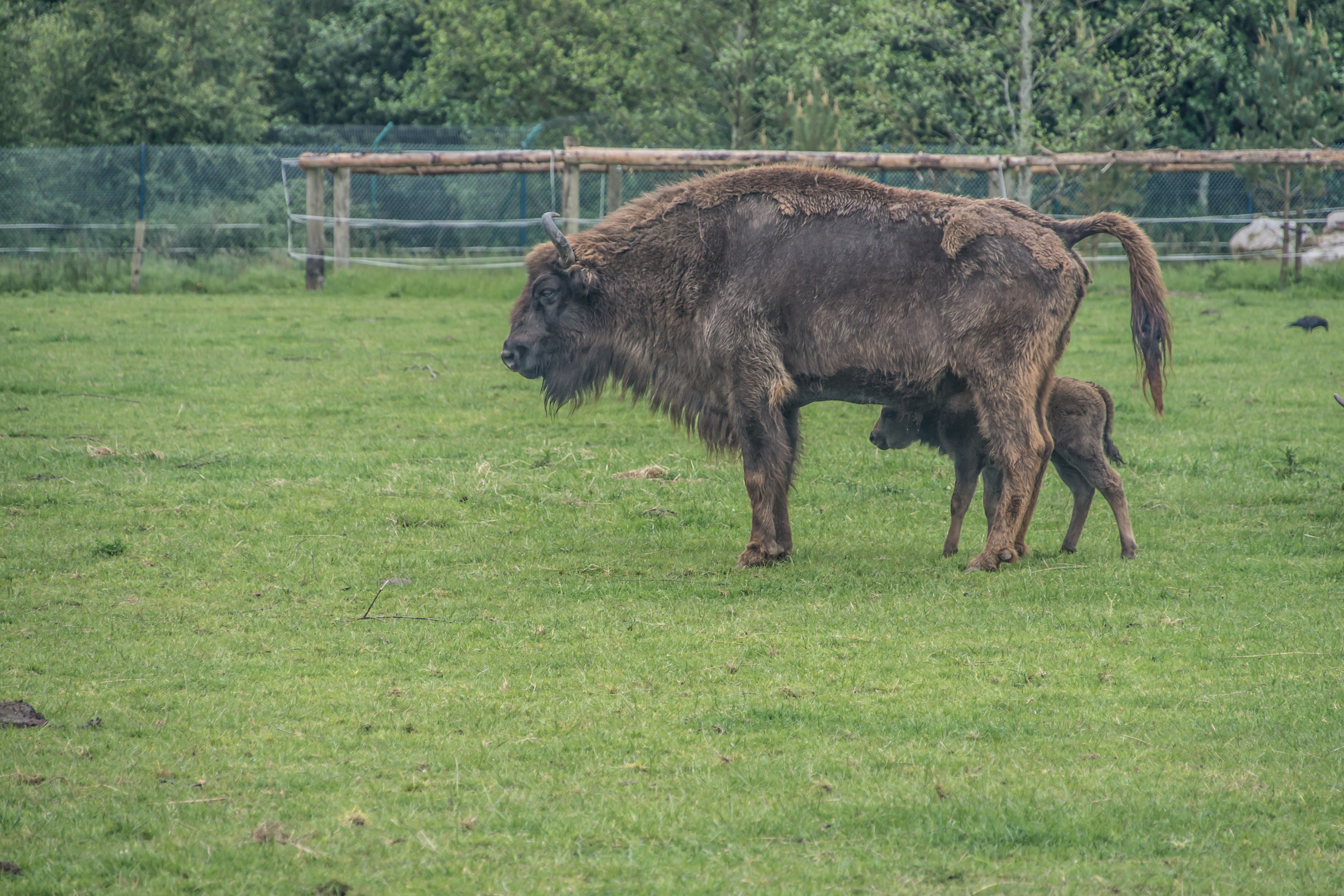 Wisent at Fota Wildlife Park, set on 70 acres on the scenic Fota Island in the heart of Cork Harbour only 15 minutes from Cork City by train.